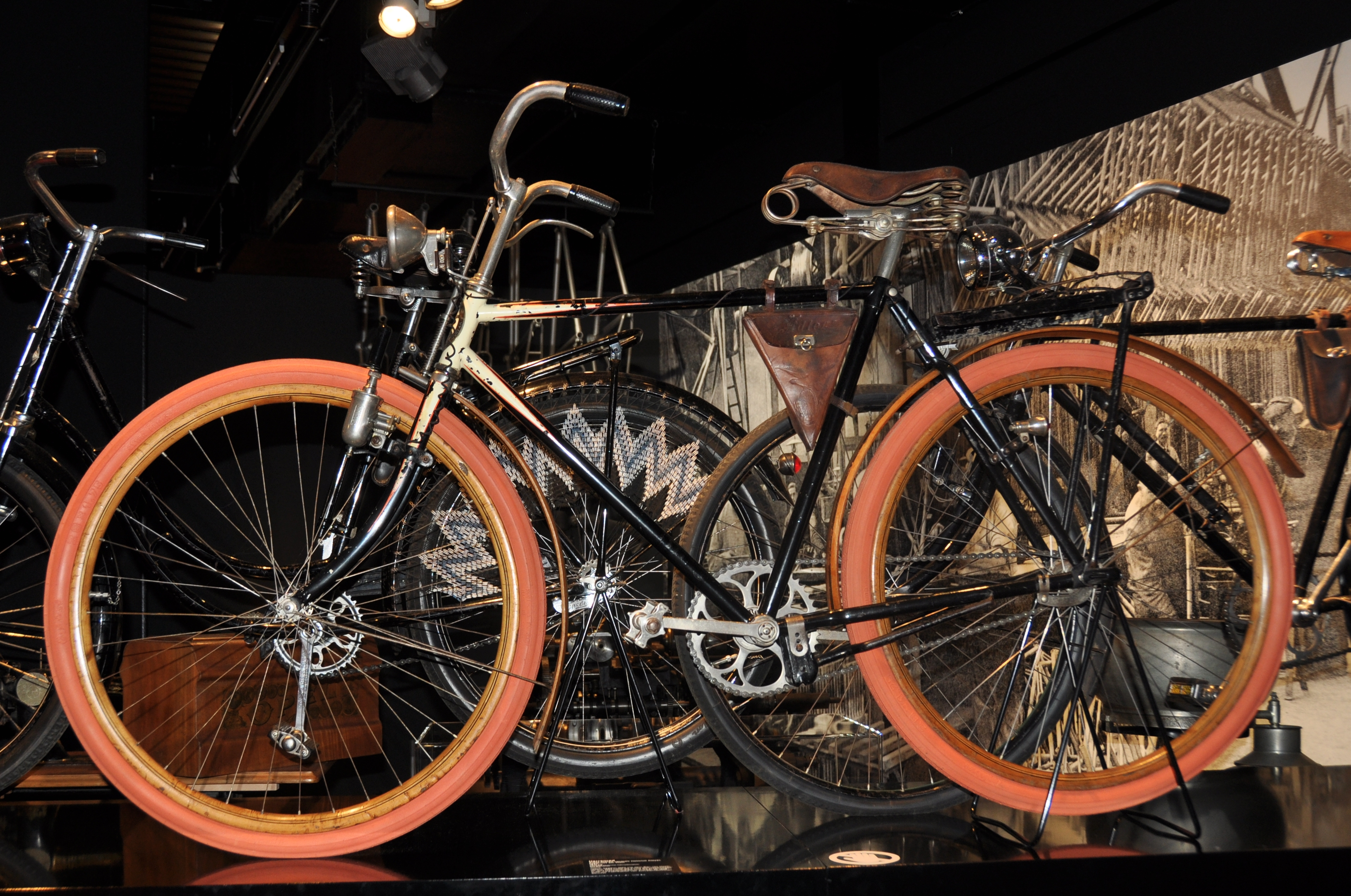 I have published this image as author under the Creative-Commons-License CC-by-sa 4.0. This means that free usage outside of Wikimedia projects under the following terms of licence is possible: 1.1 The image is credited with “Nicola, Wikimedia Commons, CC-by-sa 4.0” If this is not possible due to shortage of space, please contact me first. 1.2 If possible, weblinks to the original image and to the licence would be great: “Nicola Wikimedia Commons, CC-by-sa 4.0” I would be happy to receive a specimen copy or the URL of the website where the image is used. Please write an email to , if you need my postal address for sending a specimen copy have further questions to the terms of licence Attribution: Nicola, Wikimedia Commons, CC-by-sa 4.0